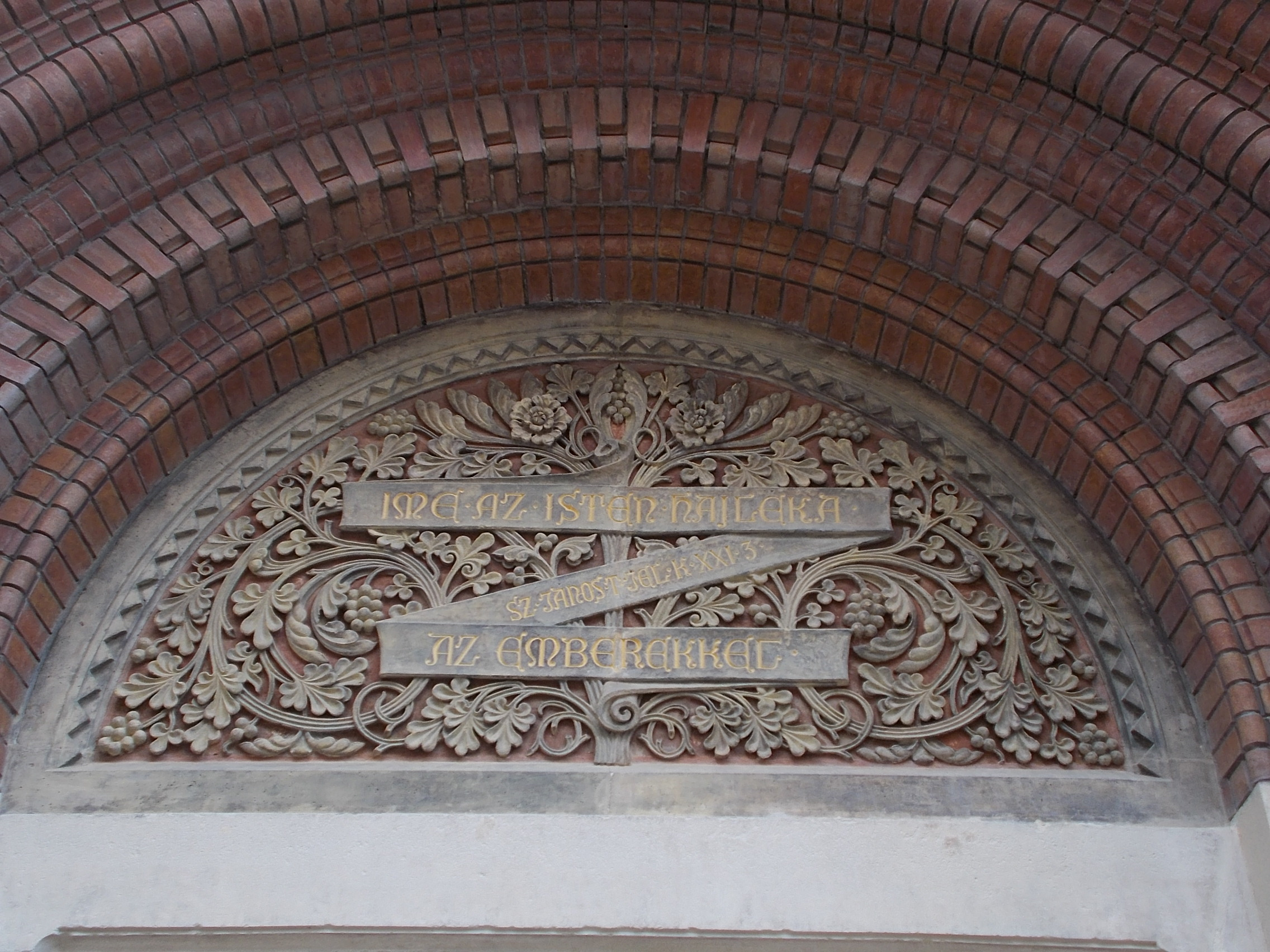 Saint Petrus Canisius church, partly school and kindergarten. - Gát Street, Budapest District IX., Hungary.